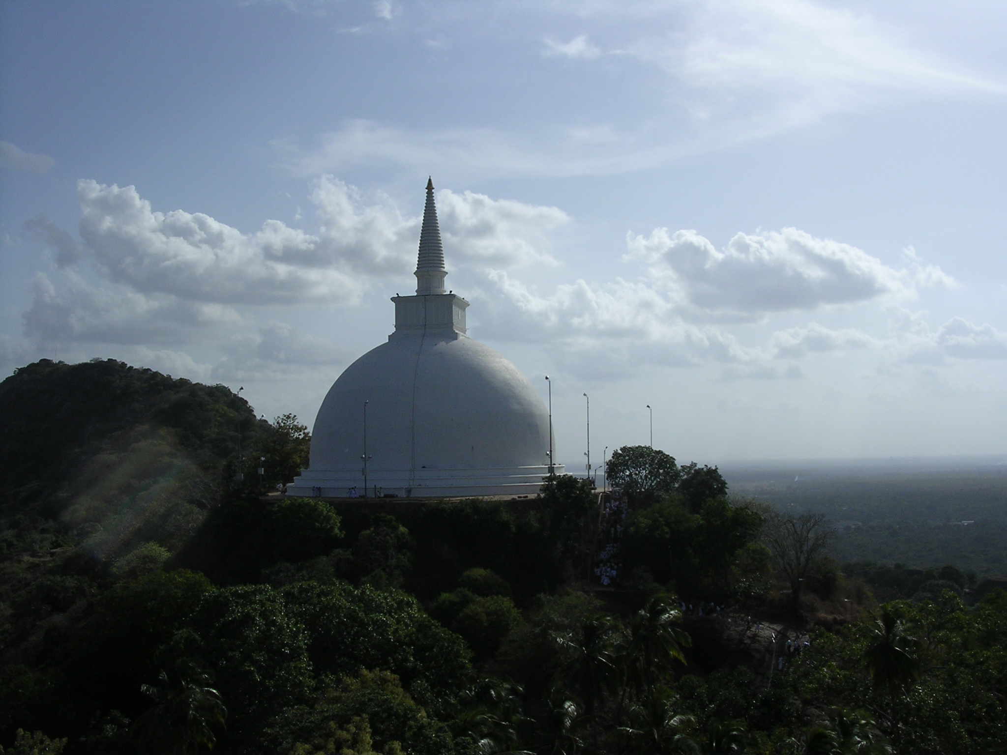 Isura Ranatunga 2004 The Maha Saya Dagaba at Mihintale, Sri Lanka. Built by King Mahadathika Mahanaga (7-19 AD).